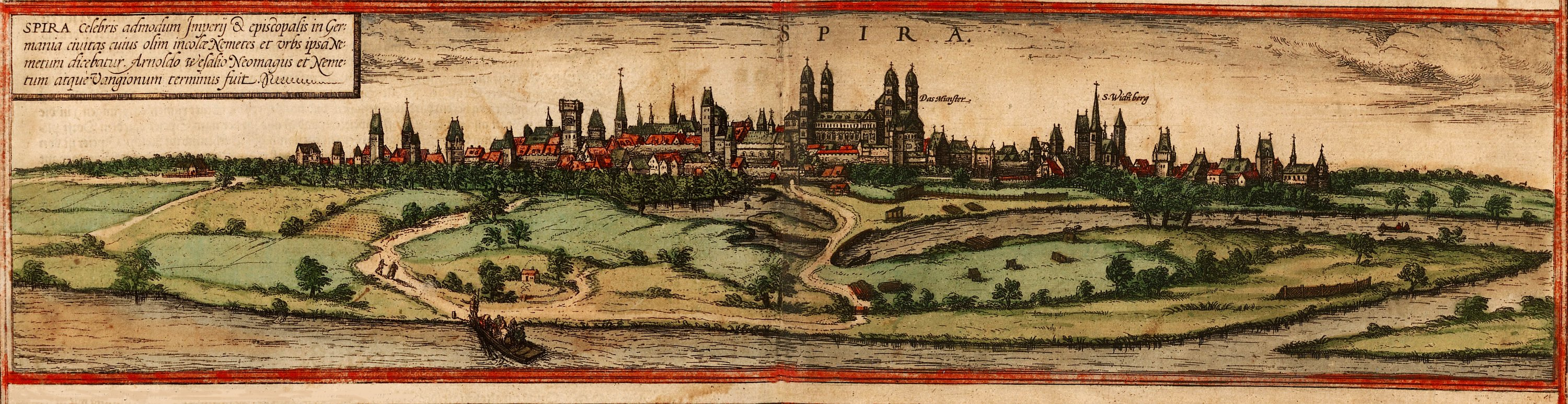 View of Speyer